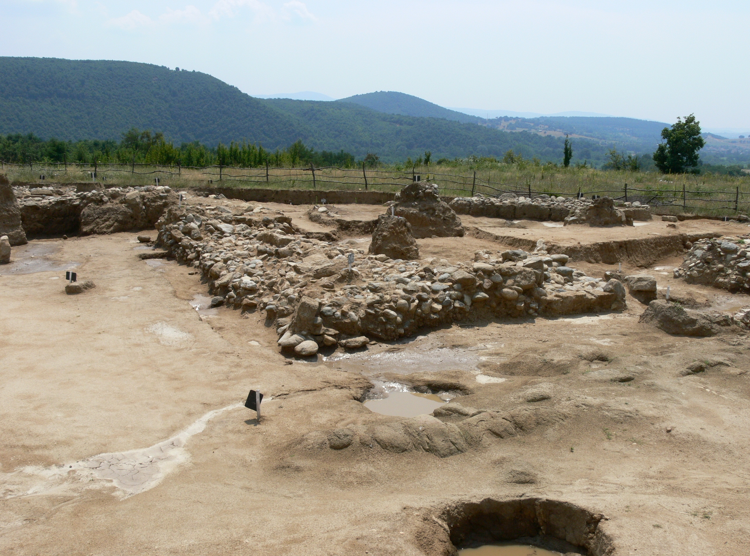 A part of the archeological excavations of the Thracian town near village Vasil Levski, Plovdiv District, Bulgaria